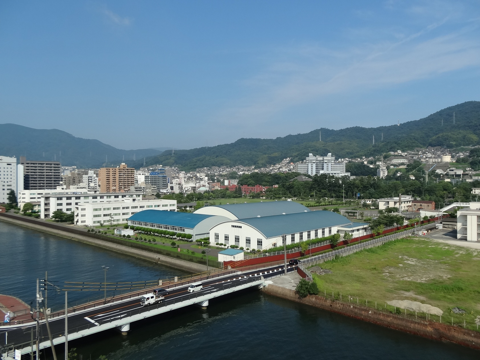 JMSDF Kure Recruit Training Center (Kure City, Hiroshima Prefecture, Japan)